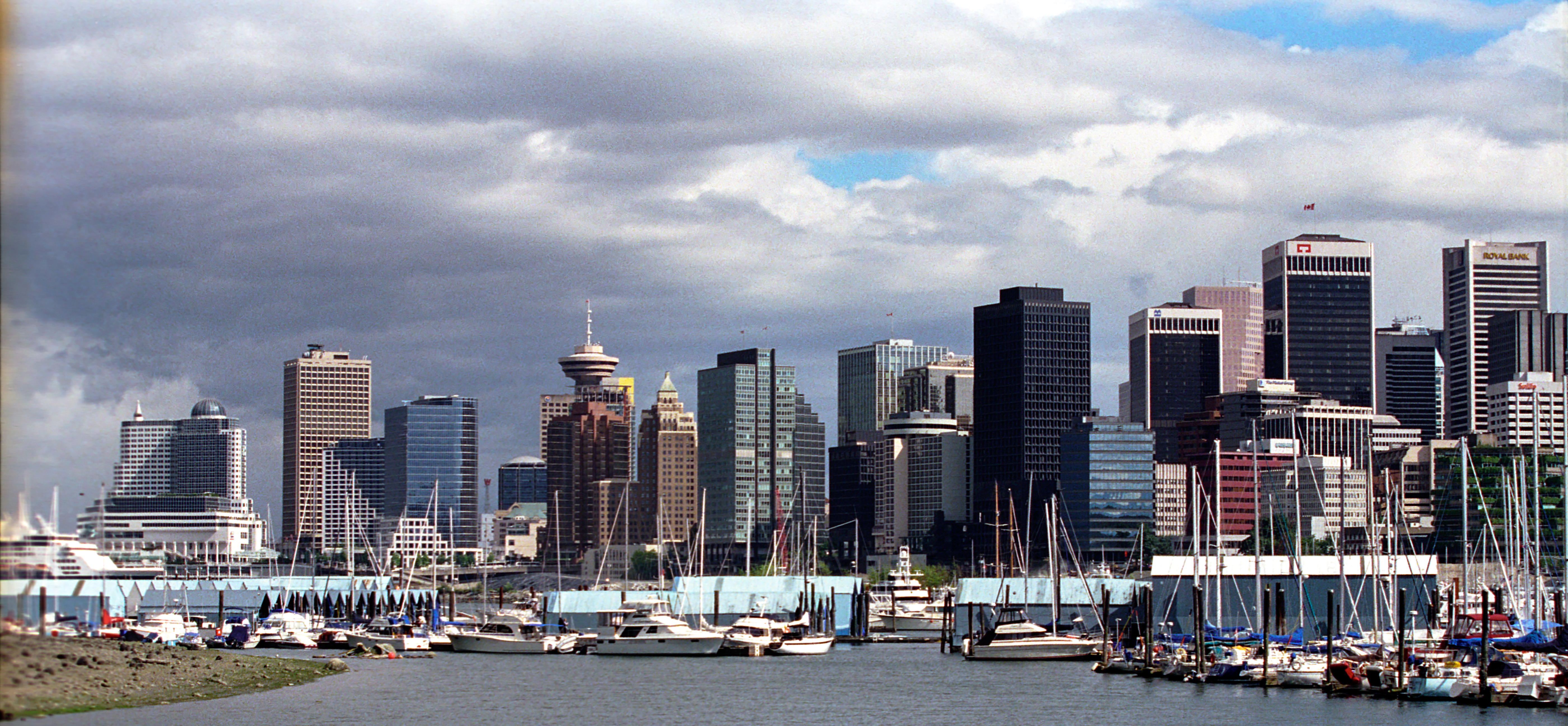 Downtown Vancouver in 1998